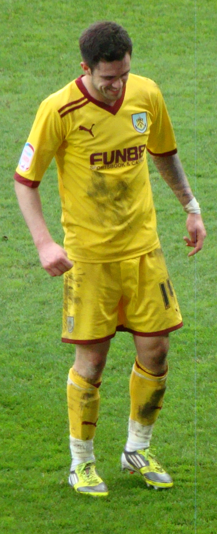 Danny Ings playing for Burnley